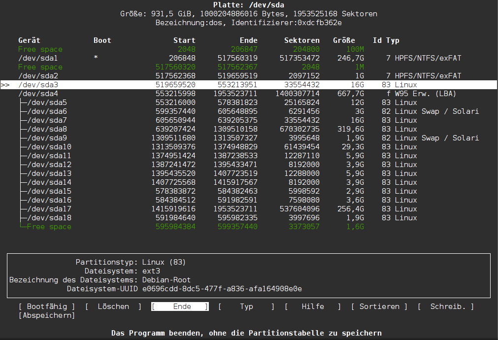 Screenshot of the partition editor "cfdisk" with german user interface.